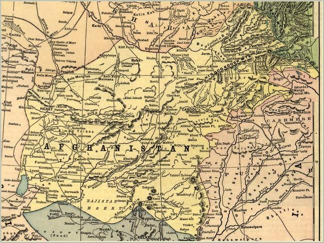 Hunt & Eaton, New York, 1893.